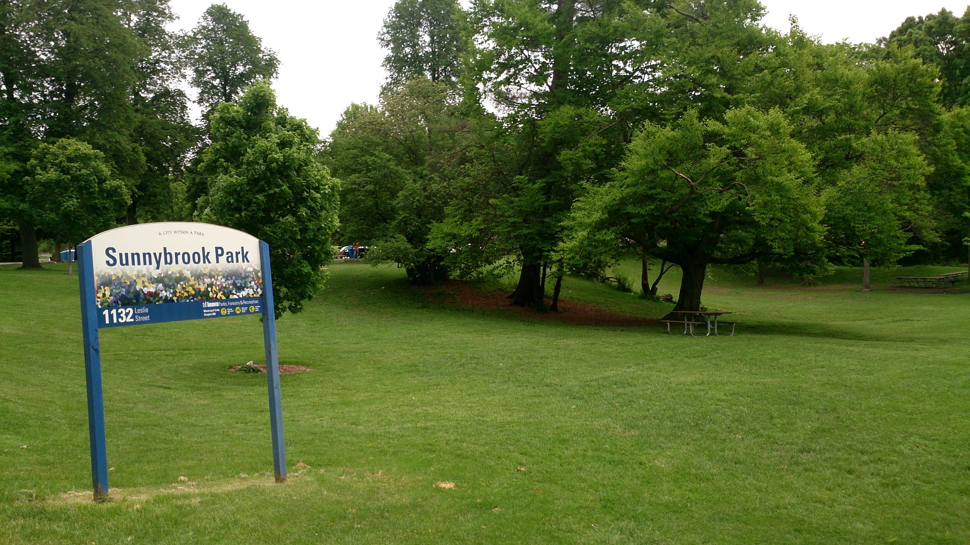 Sunnybrook Park, Toronto in the summer